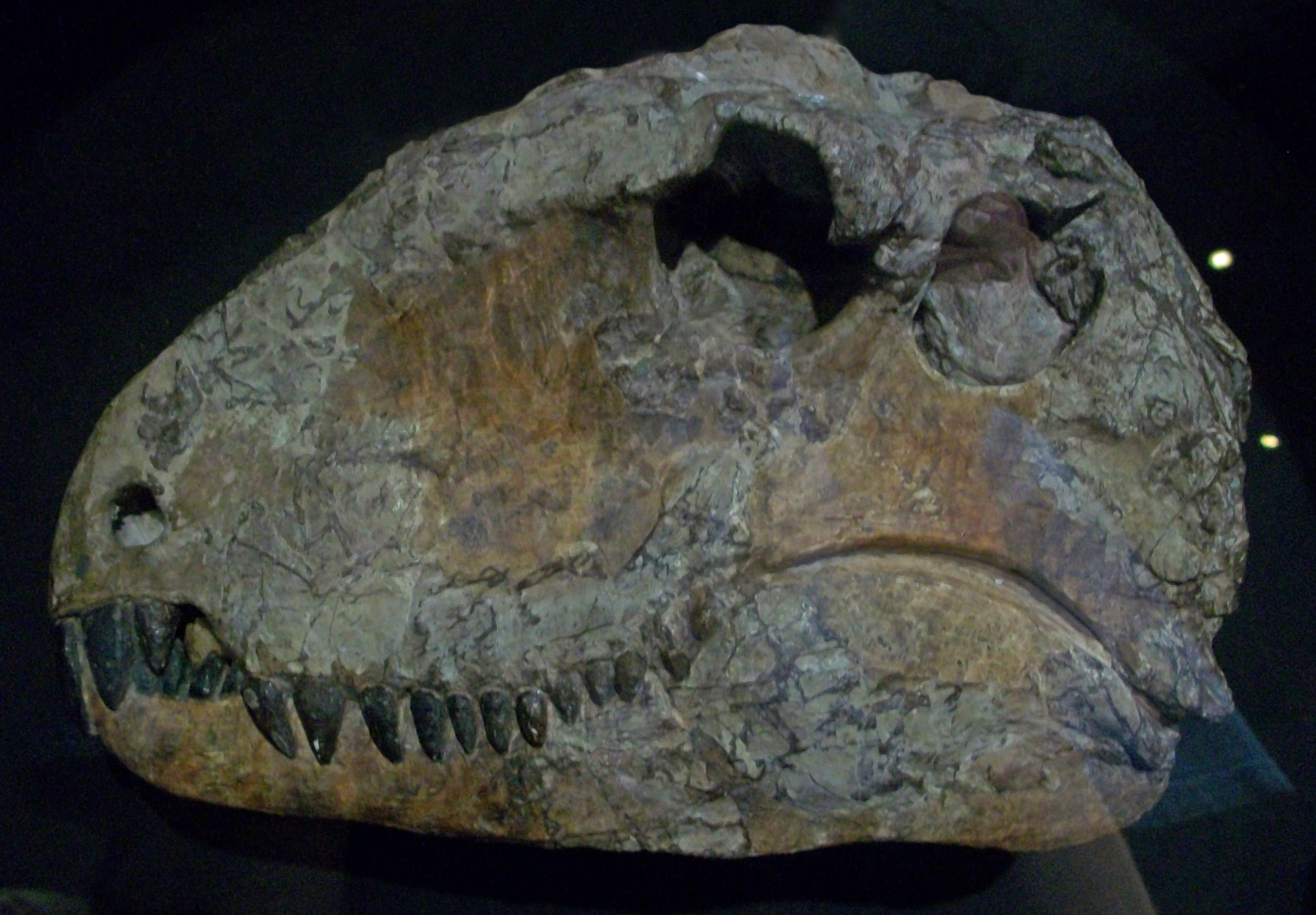 Skull of Sphenacodon ferox in the Field Museum of Natural History.